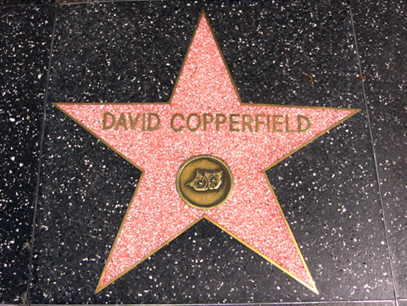 David Copperfield's Hollywood Star